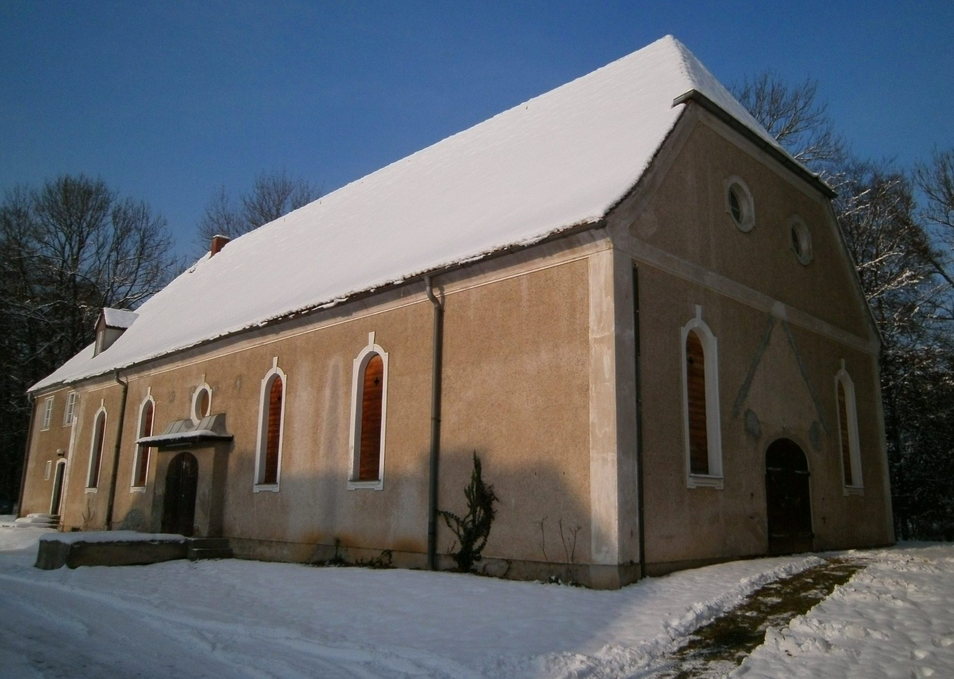 Old Church Muenichholz, Austria